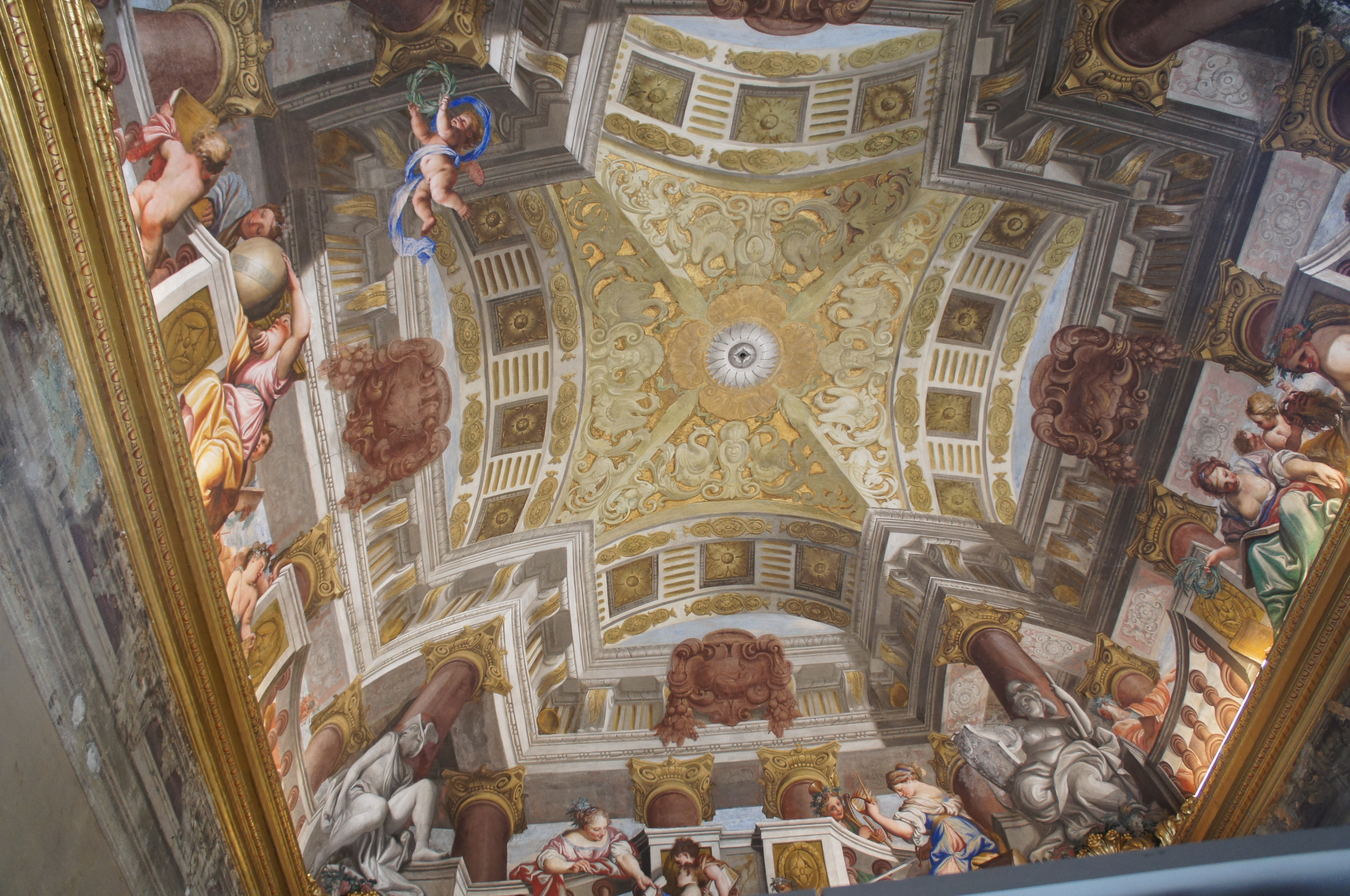 Balbi-Senarega palace, Genoa